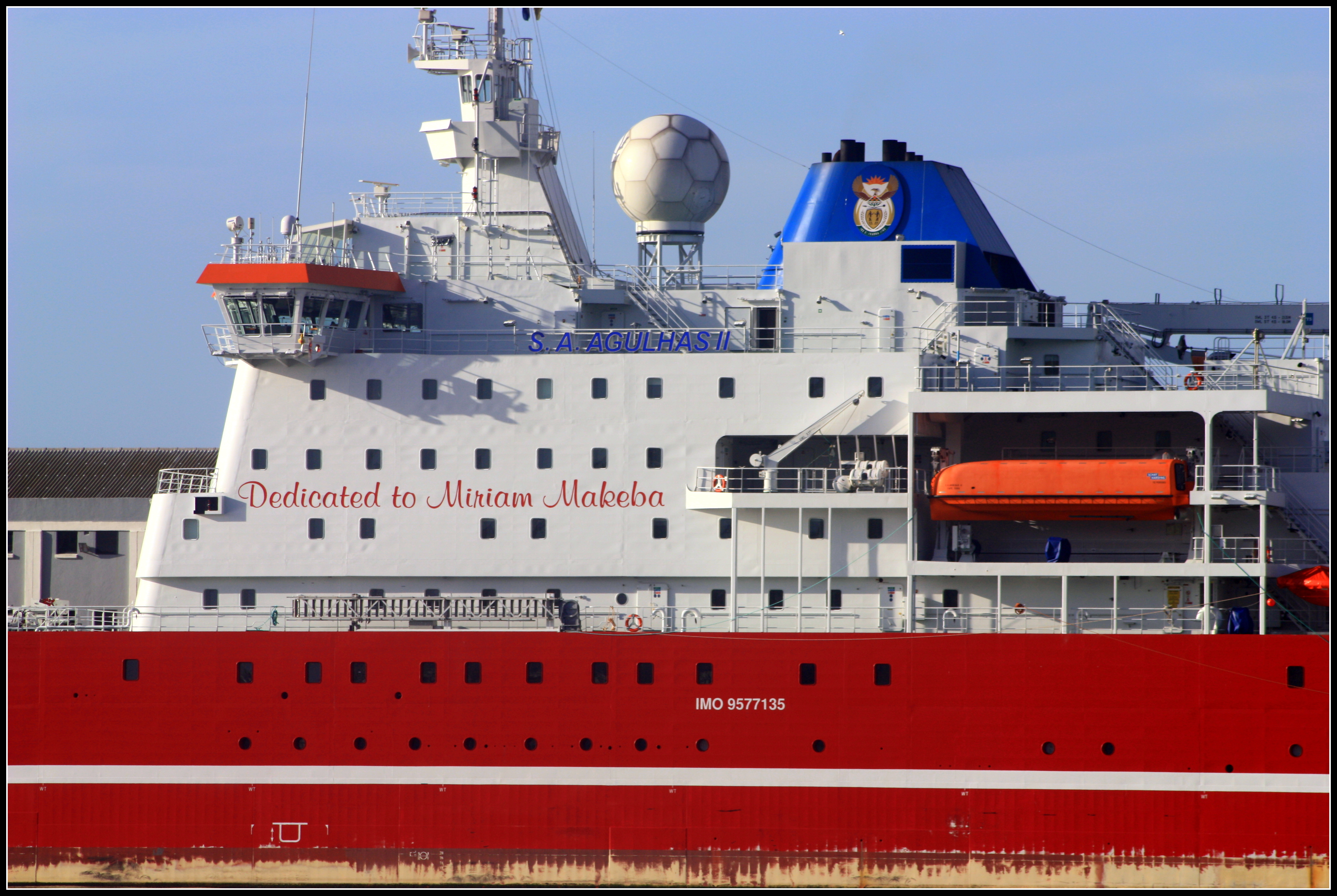 Cape Town Harbour